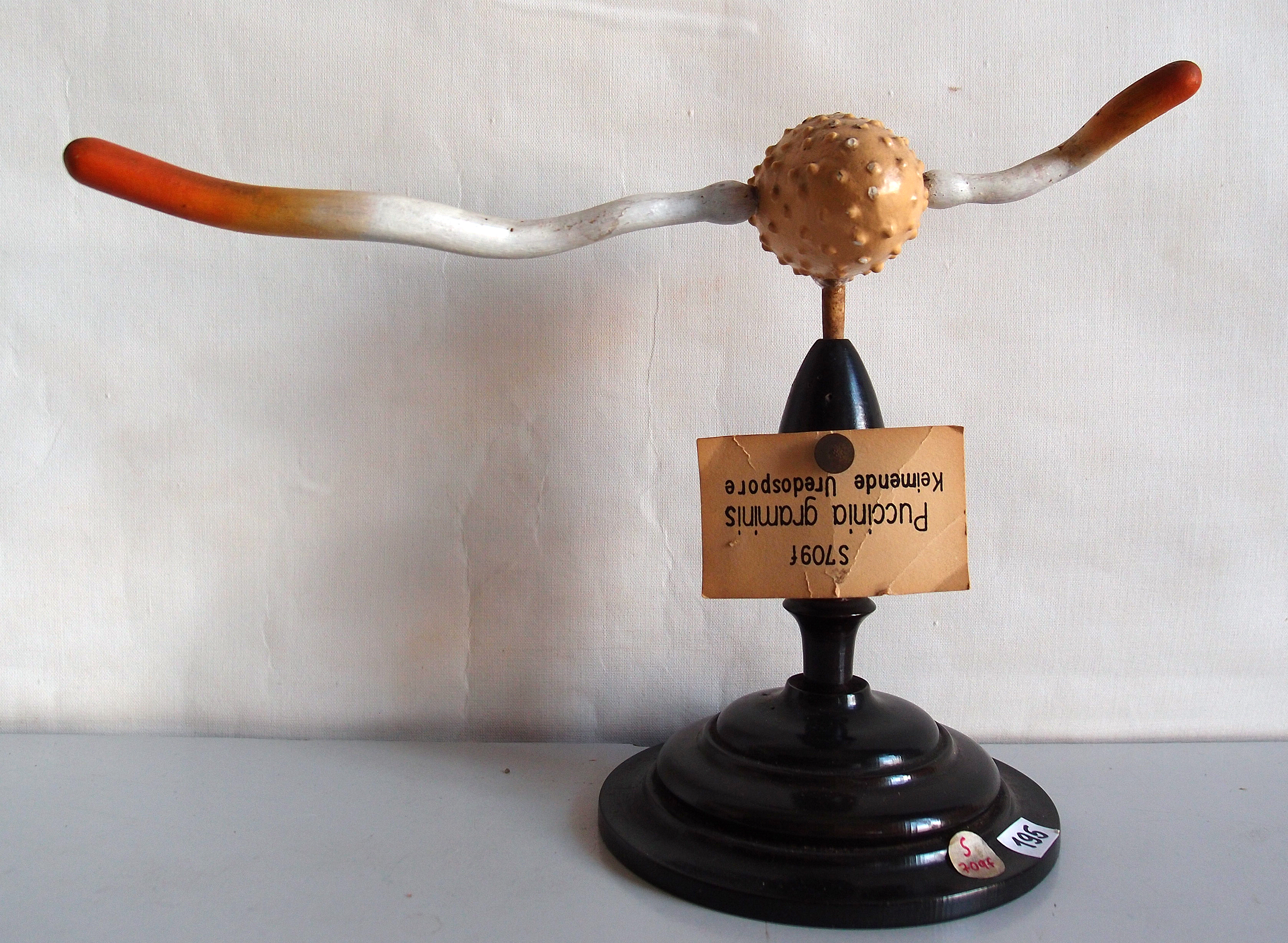 Puccinia graminis Model from the collection of the Botanical Museum in Greifswald, Germany. see also for more information on the models.